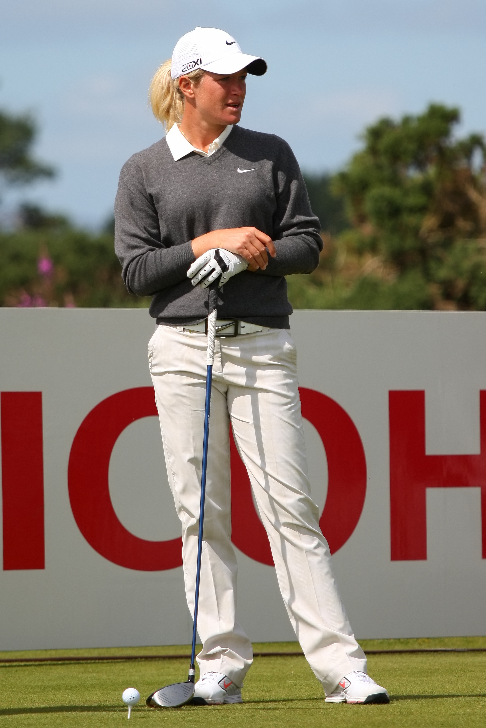 CARNOUSTIE, SCOTLAND - JULY 26: Suzann Pettersen of Norway prepares for her tee shot on the 15th hole during the pro-am round of the 2011 Ricoh Women's British Open at Carnoustie on July 26, 2011 in Carnoustie, Scotland. (Photo by Wojciech Migda)